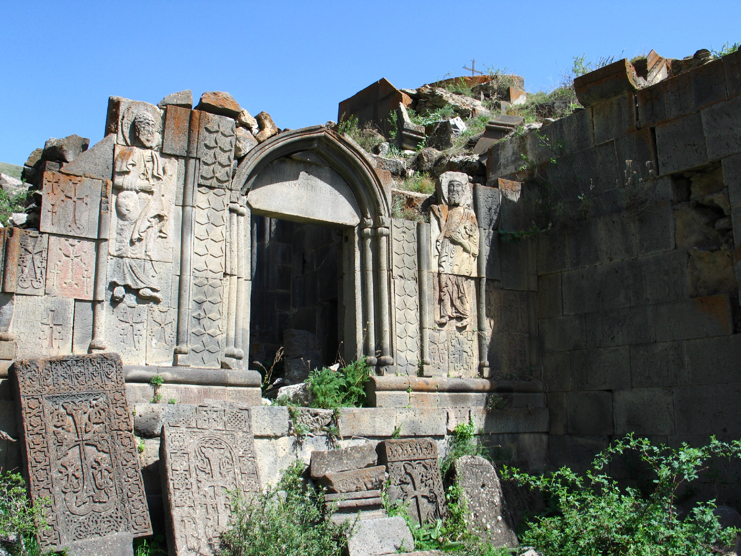 Աղջոց վանք 99.1/1.1